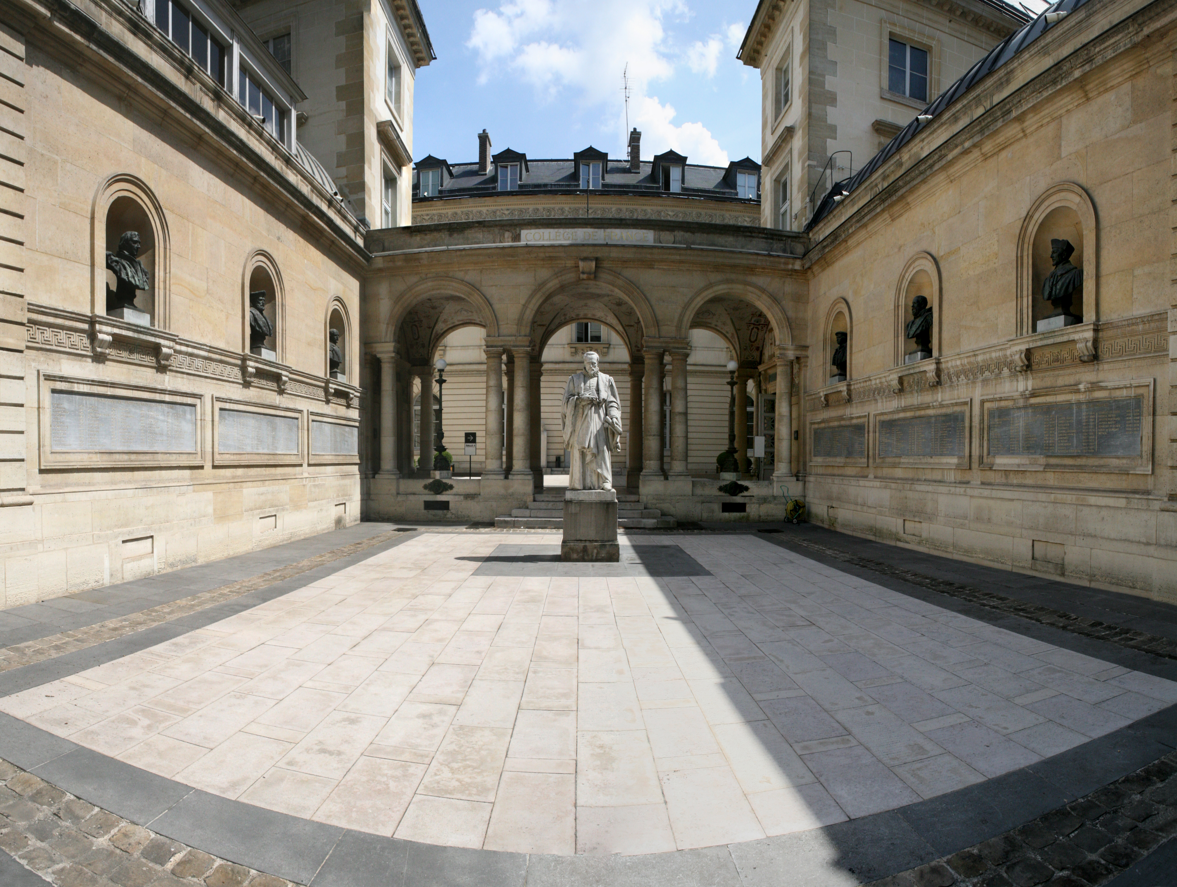 Standing statue of Guillaume Budé in the courtyard of the Collège de France.